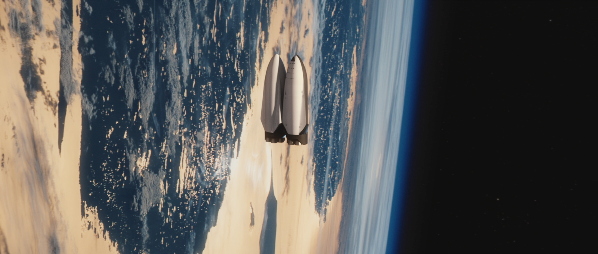 An Interplanetary tanker (left) transferring propellant to an Interplanetary Spaceship (right), in Earth orbit.